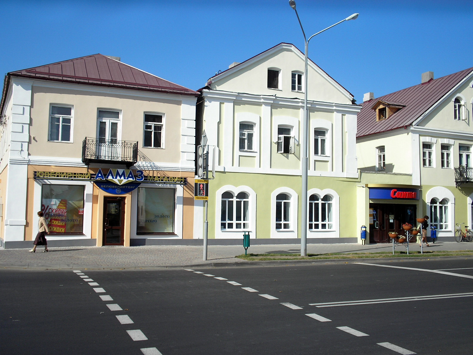 Kobryn_after_Dozhinki (Lenina street)